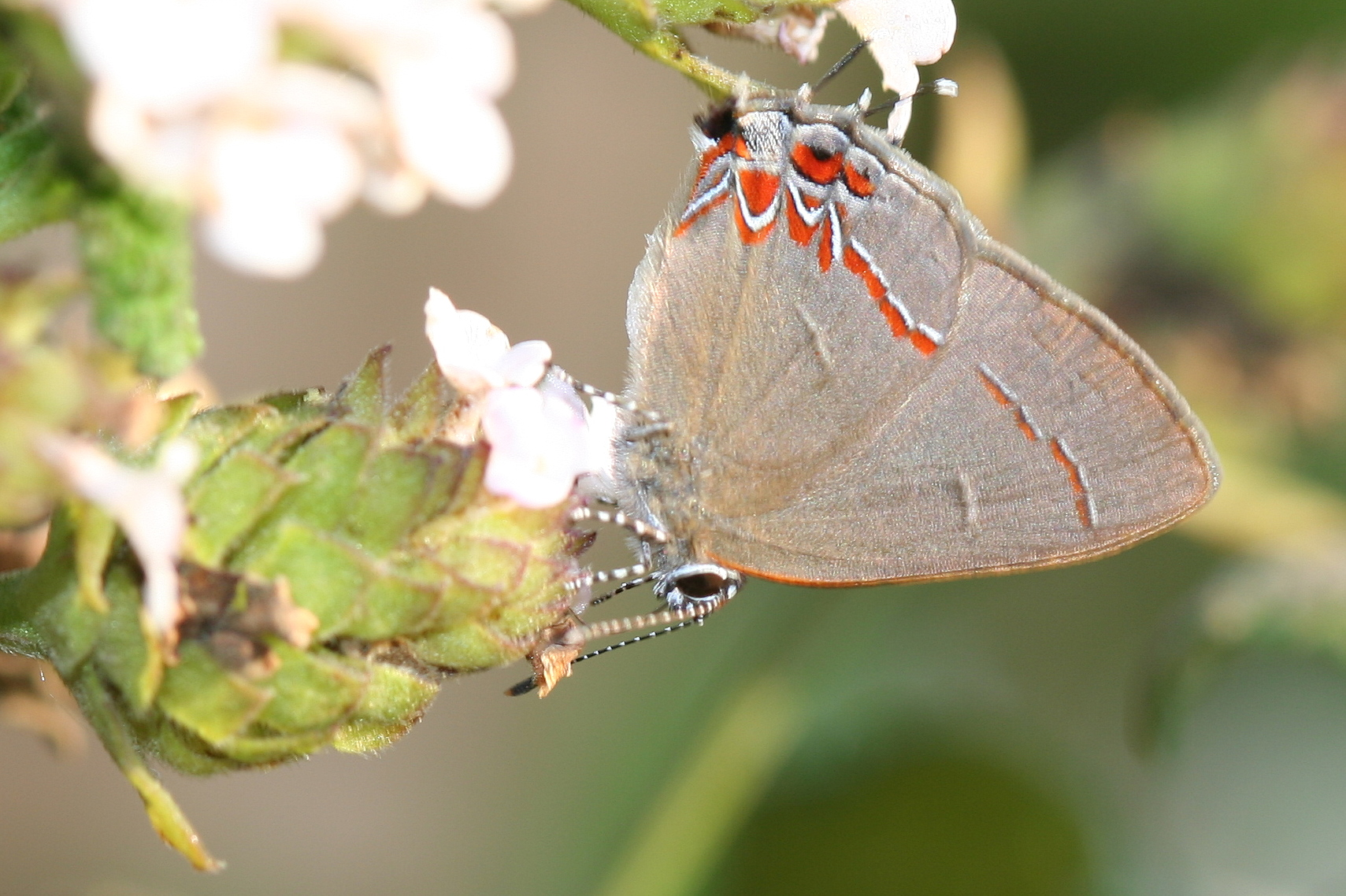 Dusky-blue groundstreak (Calycopis isobeon) ventral